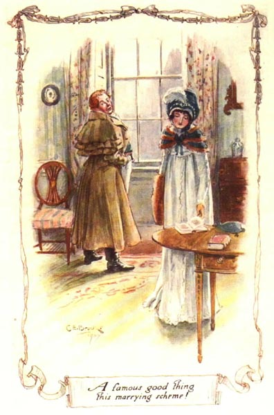 Colour illustration of a 1907 edition of Northanger Abbey (Jane Austen's novel), by C. E. Brock (died 1938)